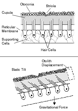 balance disorder image from public domain Descriptions of how the otolith organs (pictured here) of the inner ear enable humans and other animals to sense gravitation and acceleration are at Otolith, at Equilibrioception and at Vestibular system. What enables humans and other animals to keep themselves balanced is their brain's comparison of information from the vestibular system (which is comprised of three semicircular canals and two otolith organs in each ear), the visual system and the proprioceptive system.